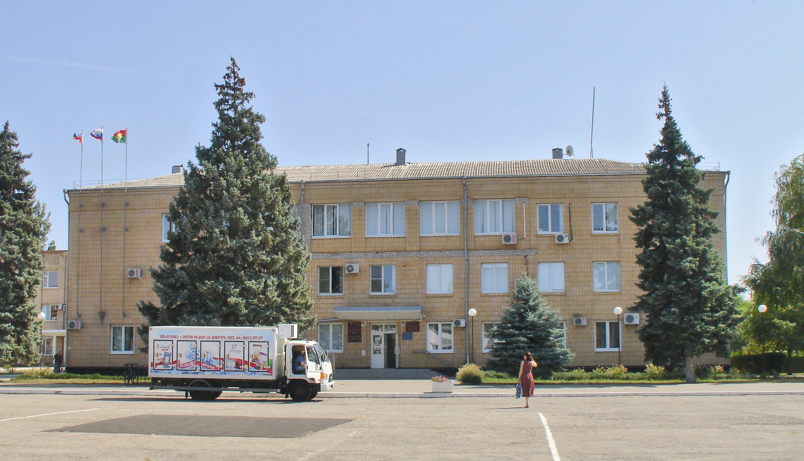 Building of Administration of Zernogradsky District of Rostovskaya Oblast. Zernograd, Rostovskaya oblast, Russia.